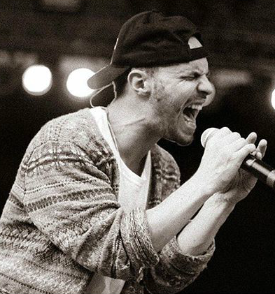 Autre Ne Veut performing live at Central Park SummerStage in New York City in 2013